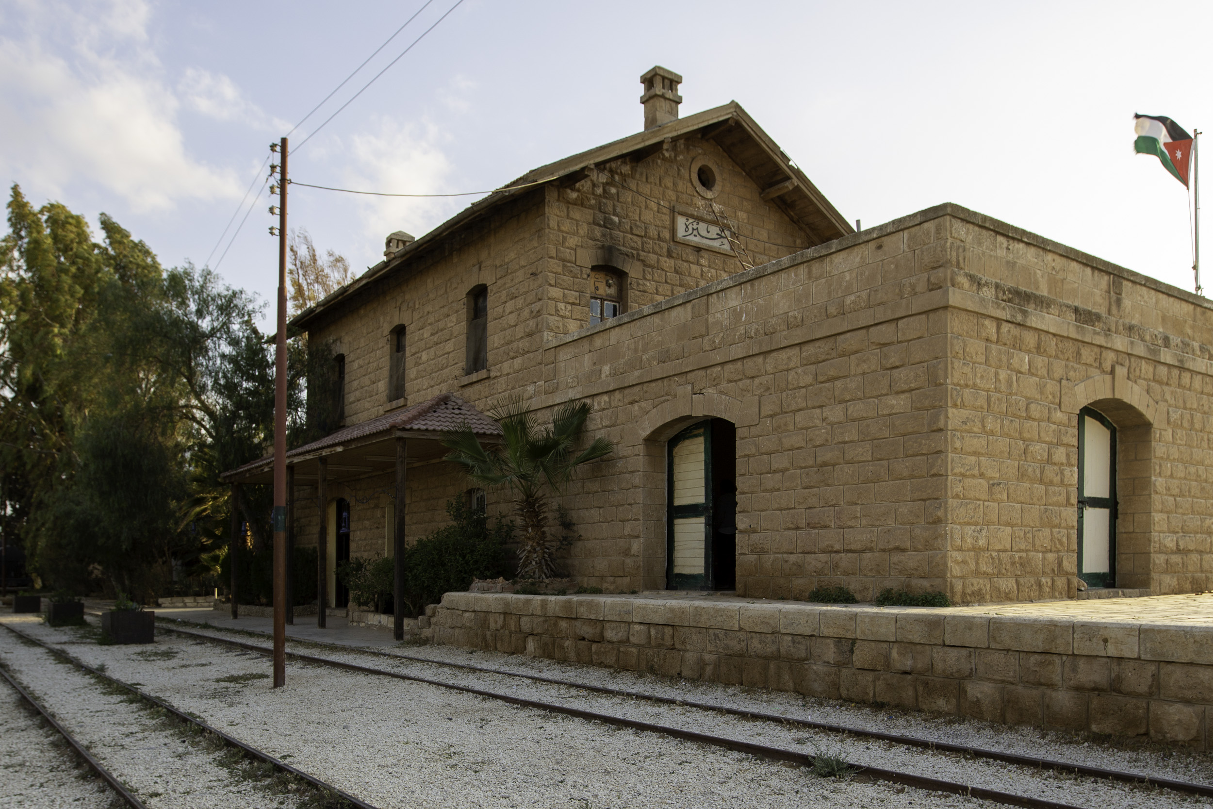 Jiza Hejaz Railway Station (2)